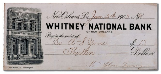 Bank check from Whitney Bank, New Orleans, Louisiana, 1905.